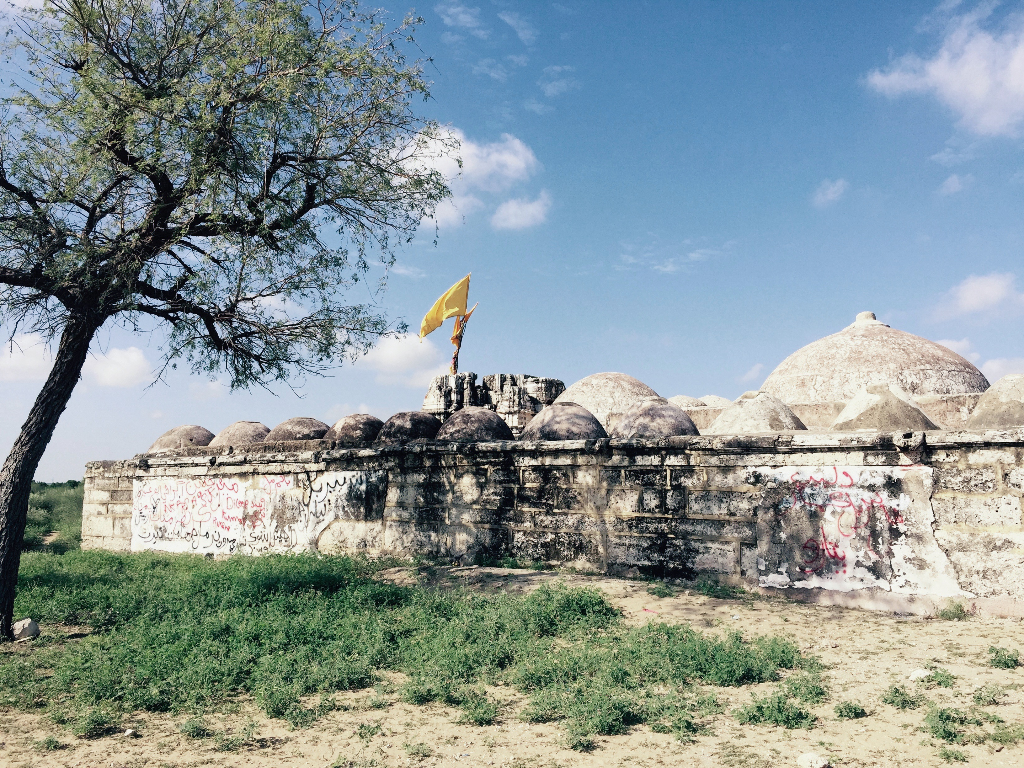 Gori Jo Mandar (Temple) This is a photo of a monument in Pakistan identified as the SD-68